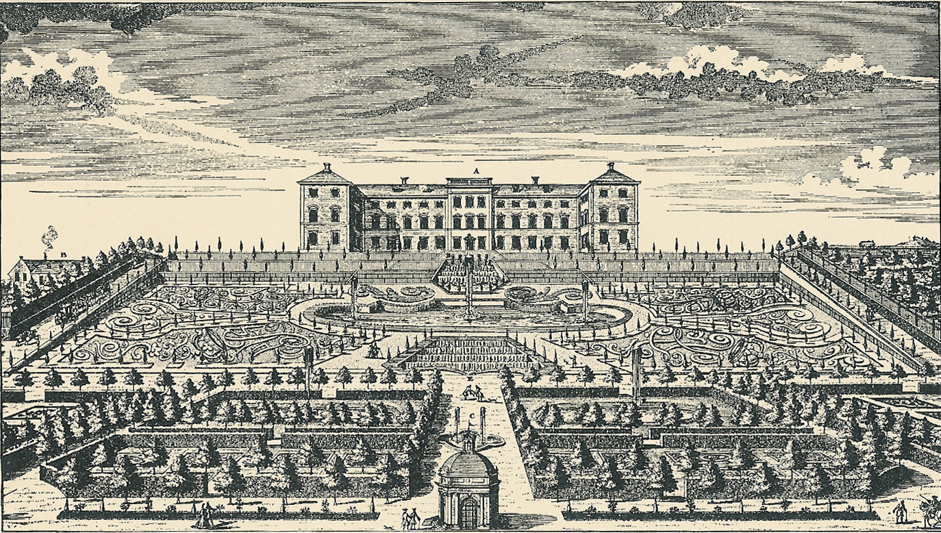 Frederiksberg Slot og Have 1718. Efter stik af I.A. Corvinus efter C. Marselius' tegning.